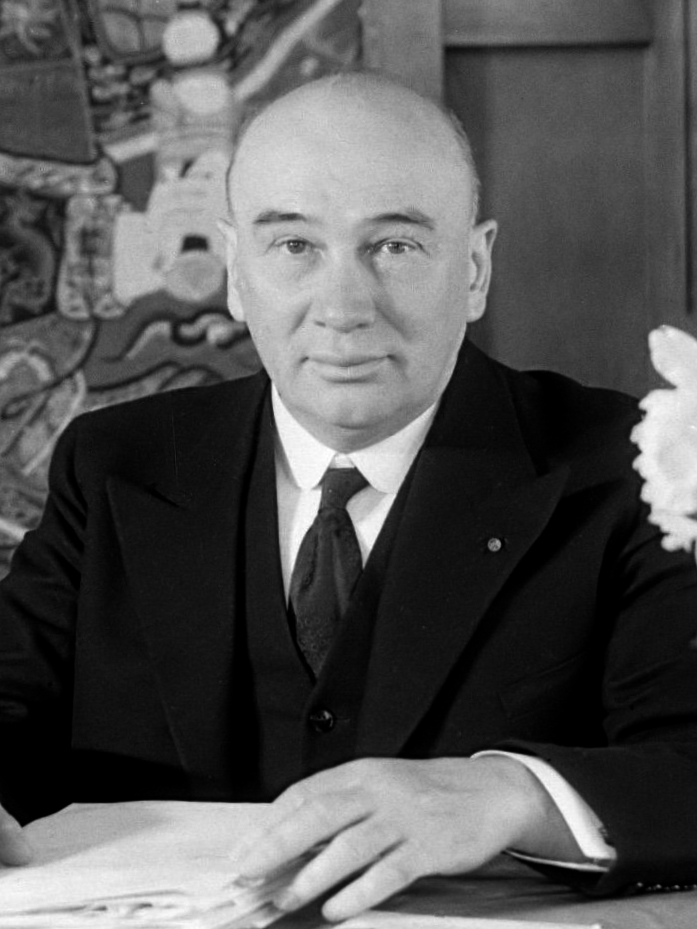 The Belgian consul Van Haute in his home in Amsterdam with a portrait of Belgian King Leopold in the background